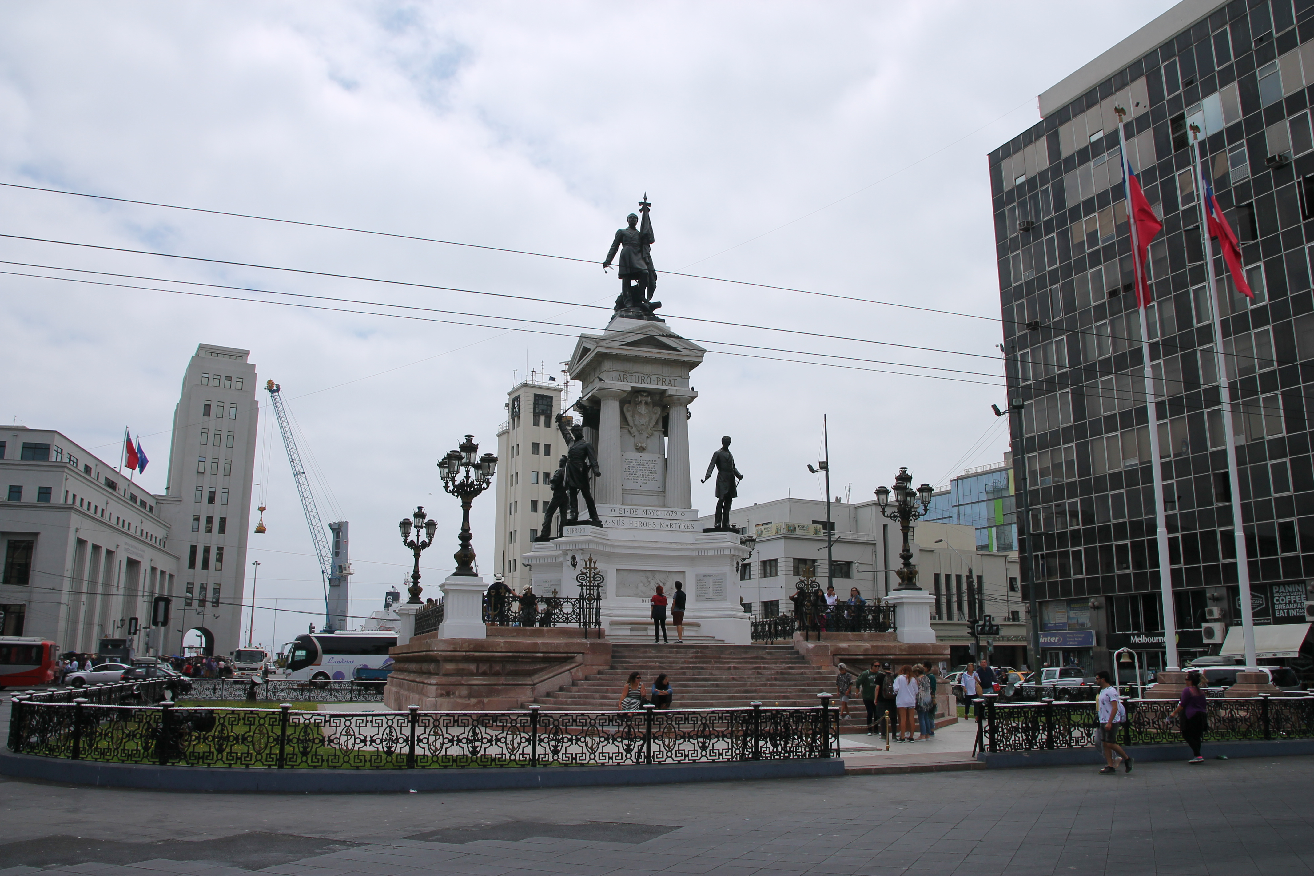 Iquique Monument in Valparaíso